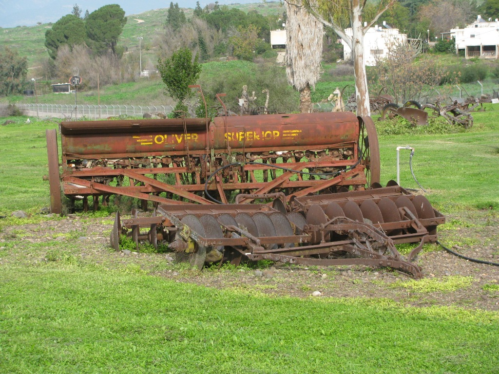 Old tools for agricultural work; a disc harrow in the foreground and an Oliver Superior grain and fertilizer drill behind